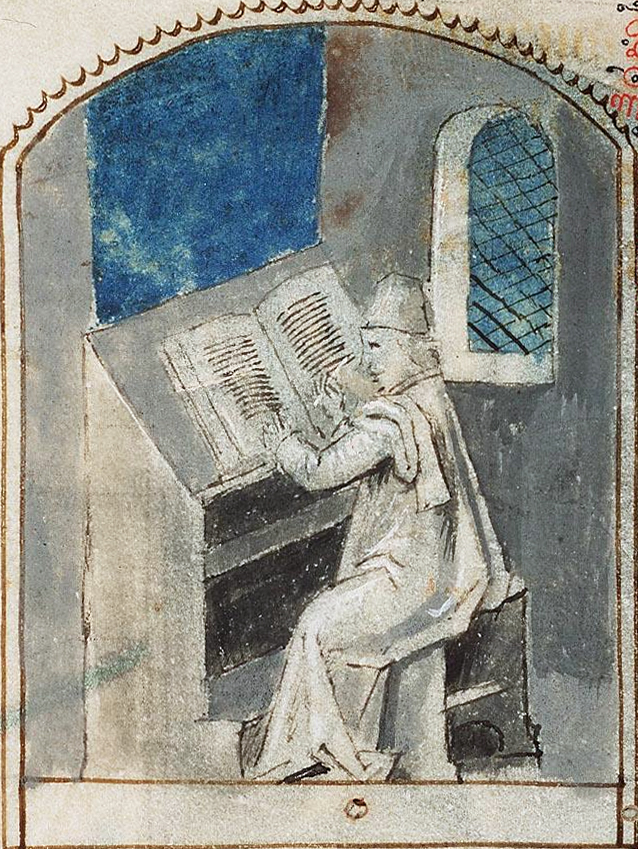 Petrus Comestor writing Contents: Peter Comestor, Historia scholastica (fragment; I). Peter Pictor, Compendium historiae in genealogia Christi (II). Theobald of Troyes, Summa Bibliae (III). Biblia pauperum (IV) Place of origin, date: Hesdin or Amiens, Rambures Master (illuminator); c. 1470 Material: Vellum, ff. 39 (1+16+5+19), 360x260 (I: 265x194; II: 260x192; III: 270x190; IV: 262x190) mm, 53 or 54 lines, littera textualis, Binding: 18th-century brown leather (rebacked) Decoration: 8+114 grisaille miniatures (80/40x55/25 mm and 105x60 mm) with 75 corresponding illustrations in the margin (all divided in two); 3 drawings (170/110x190/110 mm); 1 drawing in the margin (65x170 mm); penwork initials with pen-flourishes throughout Provenance: James Butler, Duke of Ormonde (1610-1688). Louis-François de Bourbon, Prince of Conti (1717-1776); purchased in 1777 at the Bourbon sale (cat. no. 1521) by Ch. Chardin; purchased in 1824 at the Chardin sale in Paris (cat. Febr. 9, no. 2271) by W.H.J. vanWestreenen Annotation: the Biblia Pauperum (ff. 21r-39v) contains most of the illumination